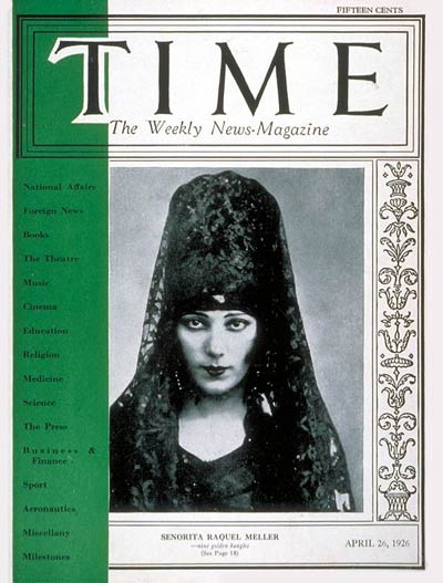 Time magazine, April 26, 1926. The cover shows Raquel Meller.